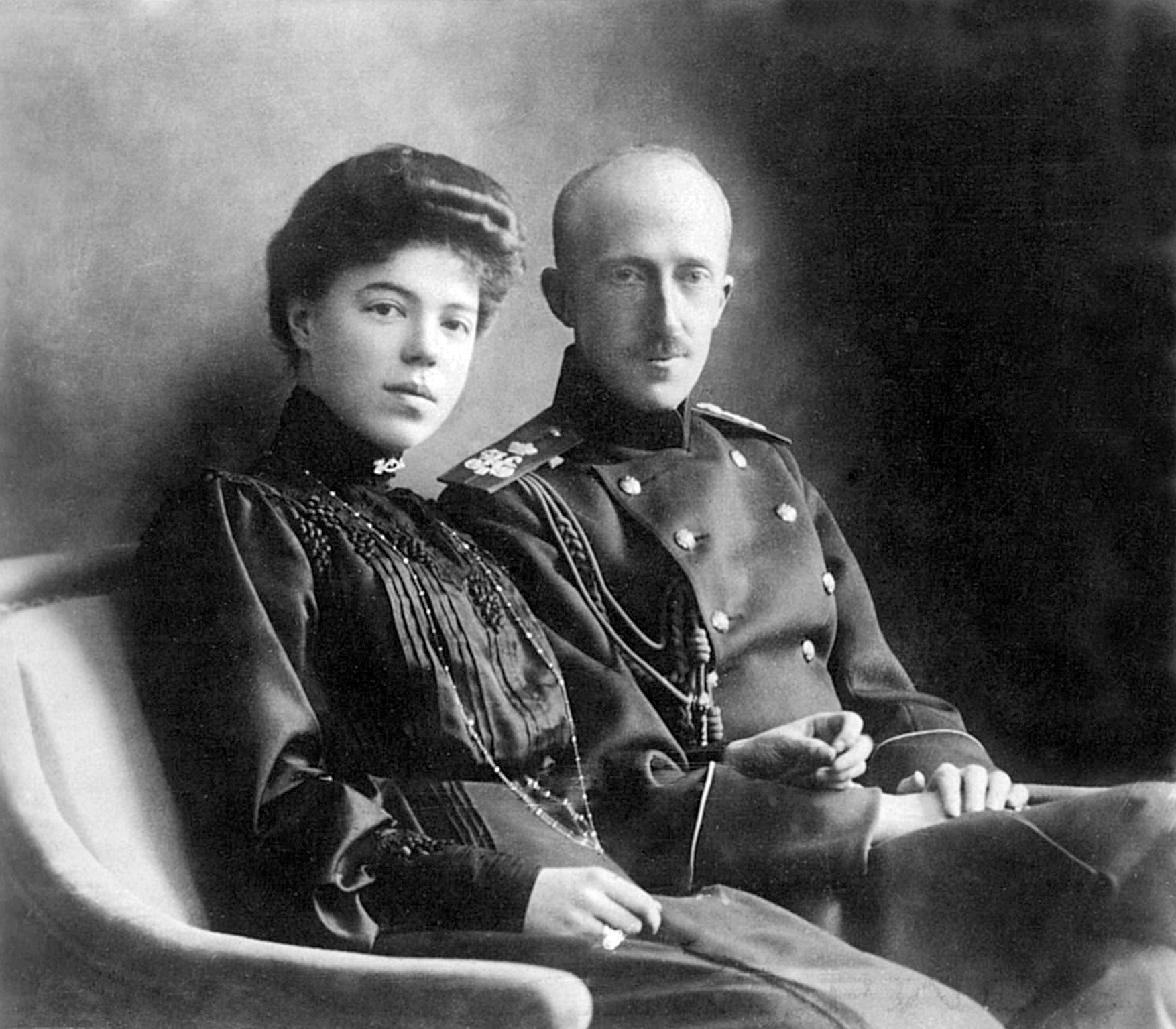 Grand Duchess Olga Alexandrovna with her first husband Duke Peter Alexandrovich of Oldenburg